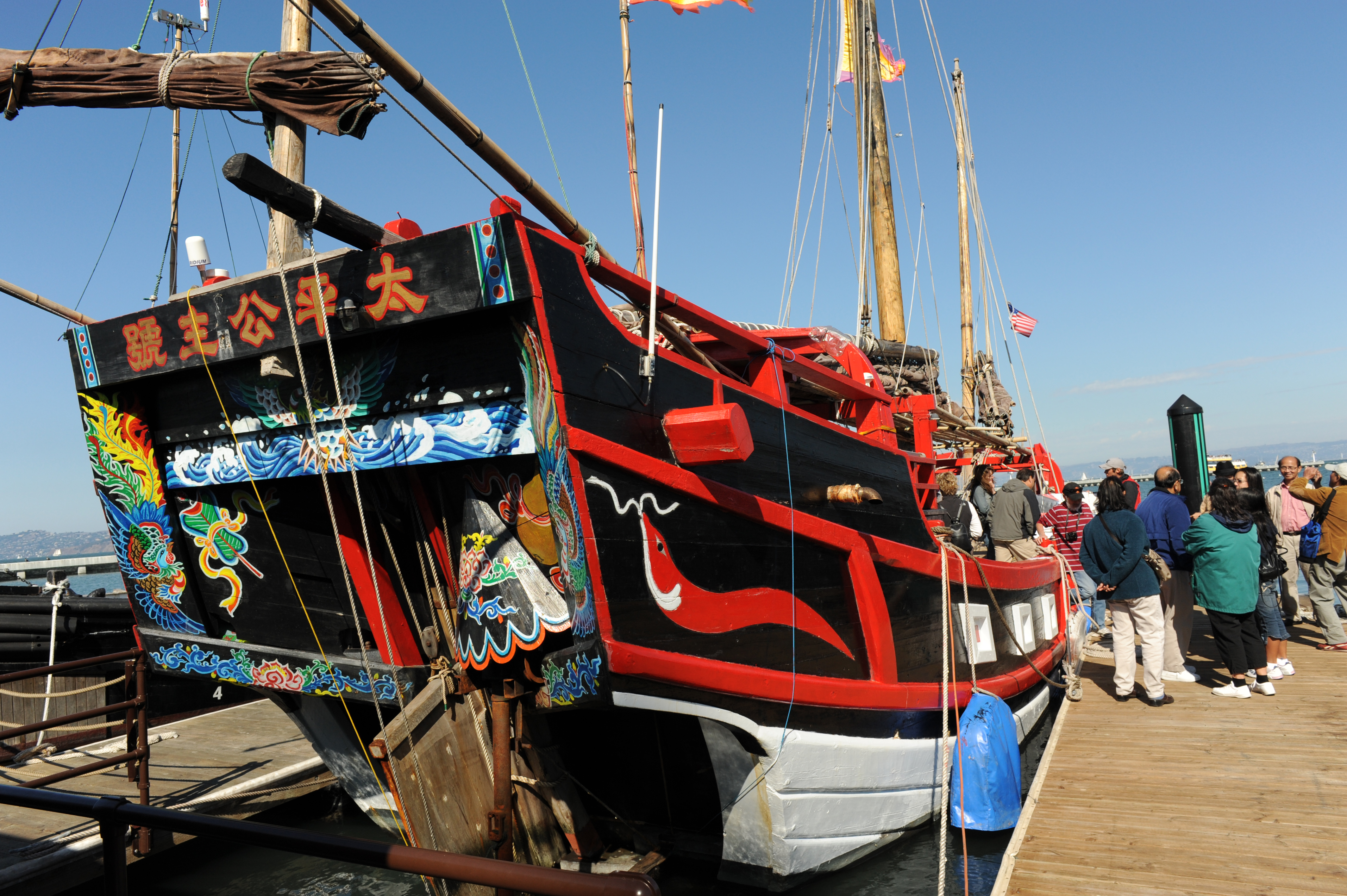 The Princess TaiPing docked at the Hyde Street Pier. She's a replica Chinese war junk built in 2007. Read all about her at Read the BBC story about her wreck off the coast of Taiwan